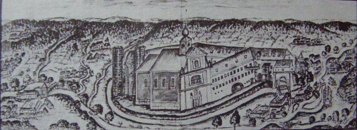 Szentgotthárd and outskirts